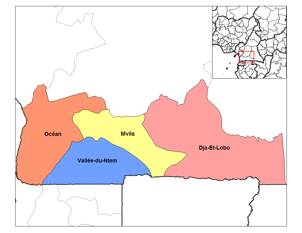 Map of the divisions of South province in Cameroon. Created by Rarelibra 19:57, 1 September 2006 (UTC) for public domain use, using MapInfo Professional v8.5 and various mapping resources.